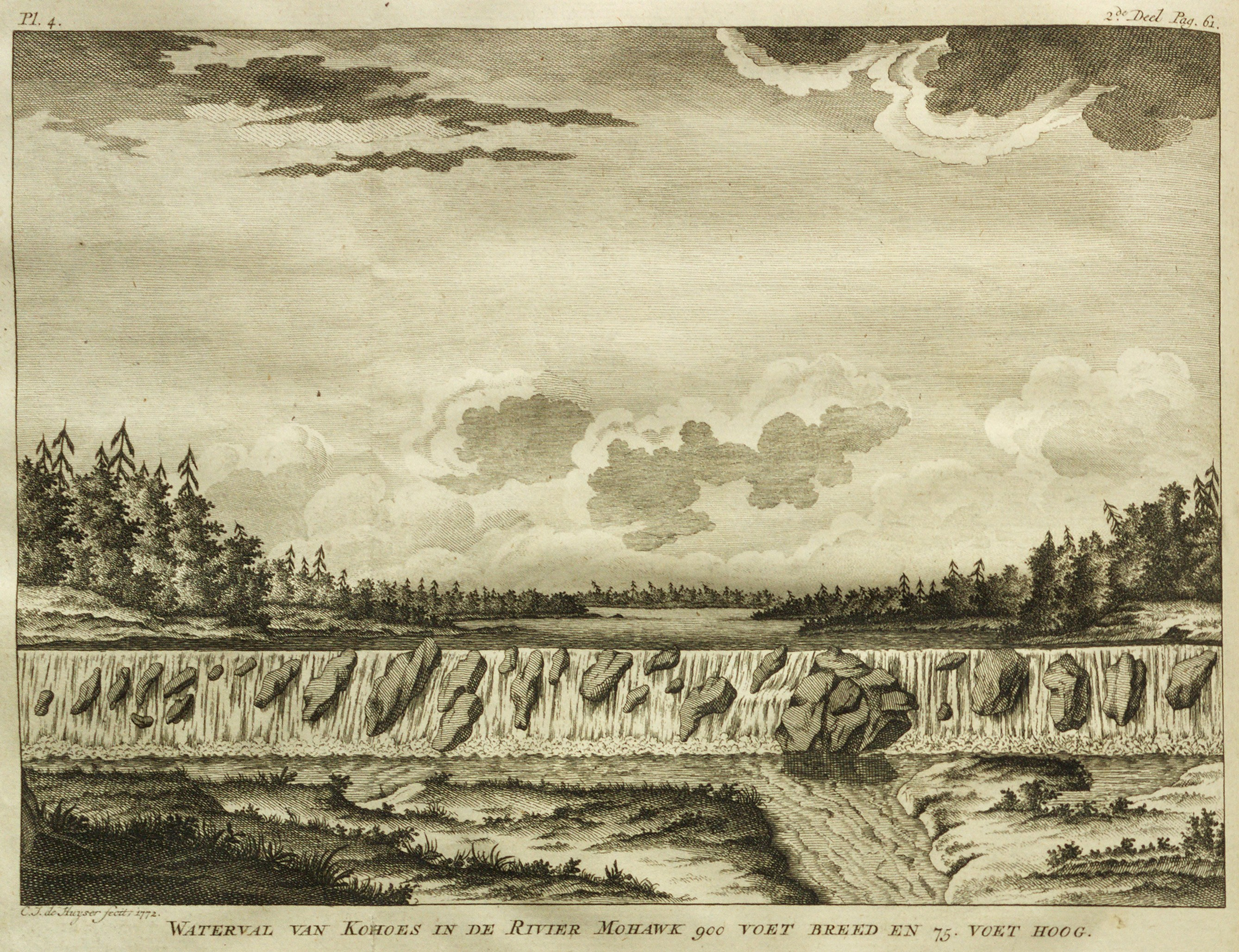 Page 61 in part 2 of the 1772 Dutch translation of Pehr Kalm (1753–1761): En Resa til Norra America ["A travel to Northern America"].